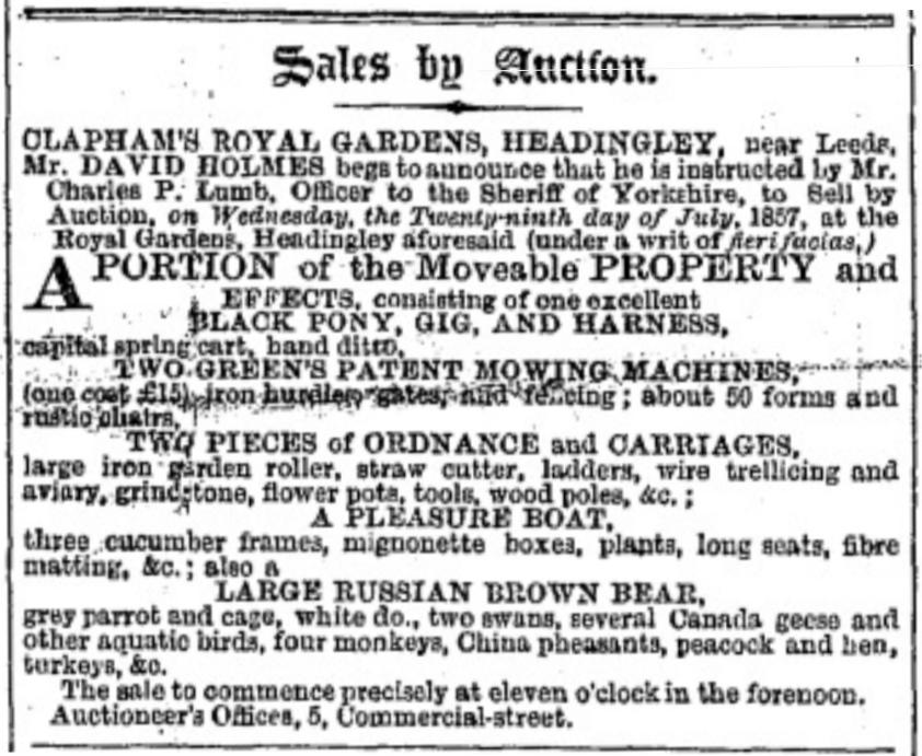 Sale by auction